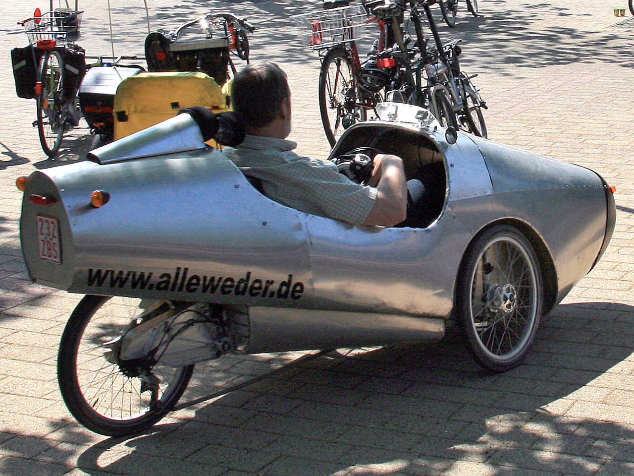 Recumbent bike with electric motor